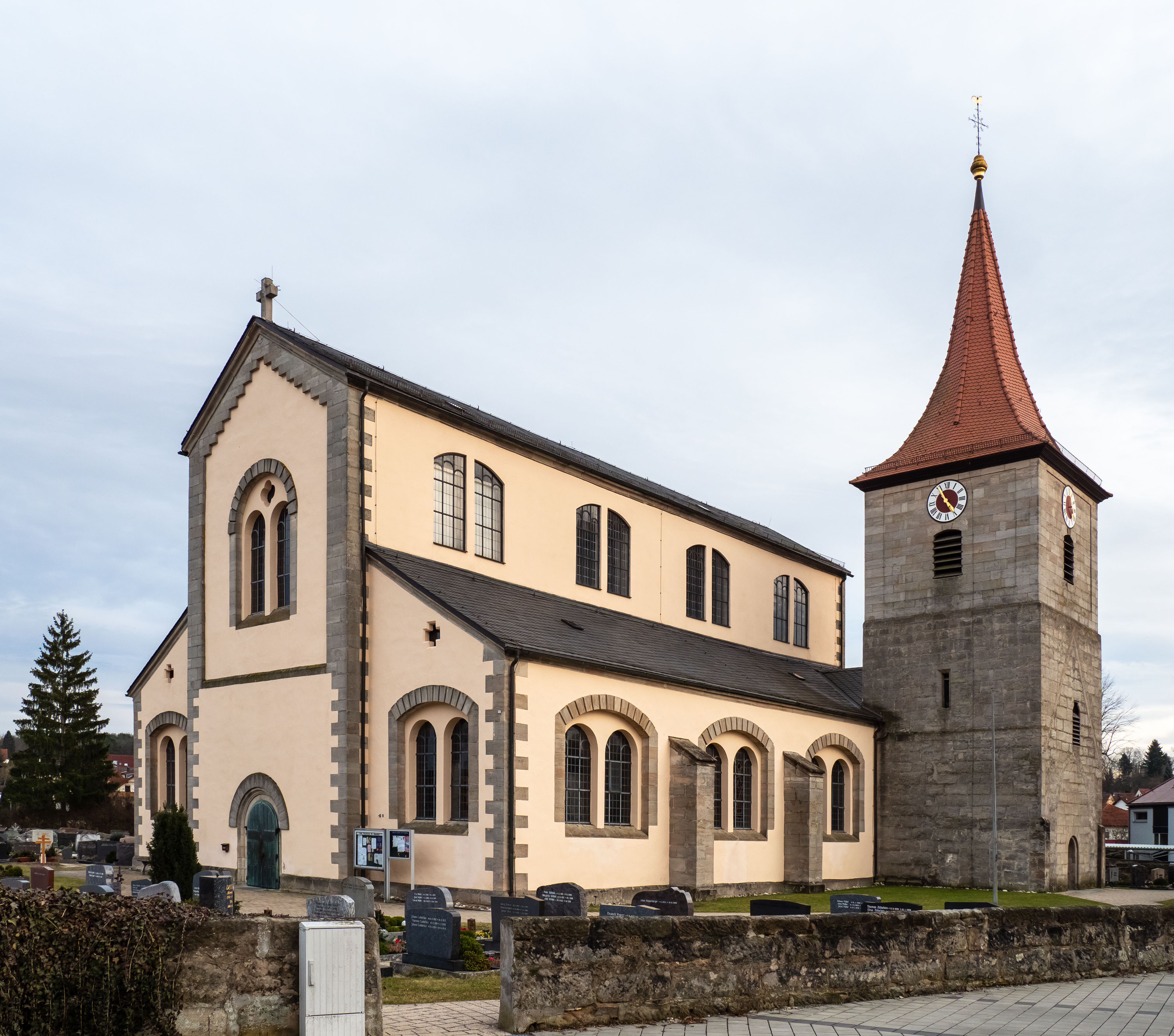 Catholic parish church St.Mauritius in Röttenbach